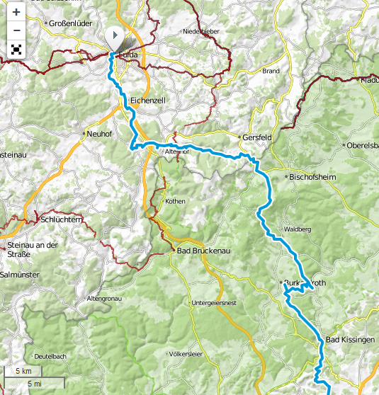 Way of St. James, Rhön Fulda Bad Kissingen